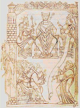 Richard II of Normandy (right), Lothair of France (left) and the abbot of Mont Saint Michel (middle), cartulary of Mont-Saint-Michel 12th century Bibliothèque Municipale, Avranches